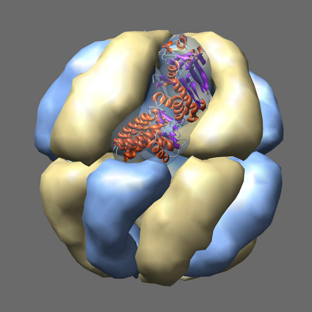 Thermosomes from Thermoplasma acidophilum has two distinct proteins colored blue and yellow, each present in 8 copies.